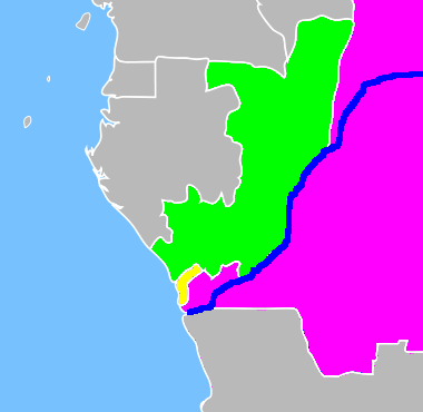 Map showing 4 Congos: the Republic of Congo, the Democratic Republic of Congo, the Portuguese Congo (Cabinda) and the Congo river